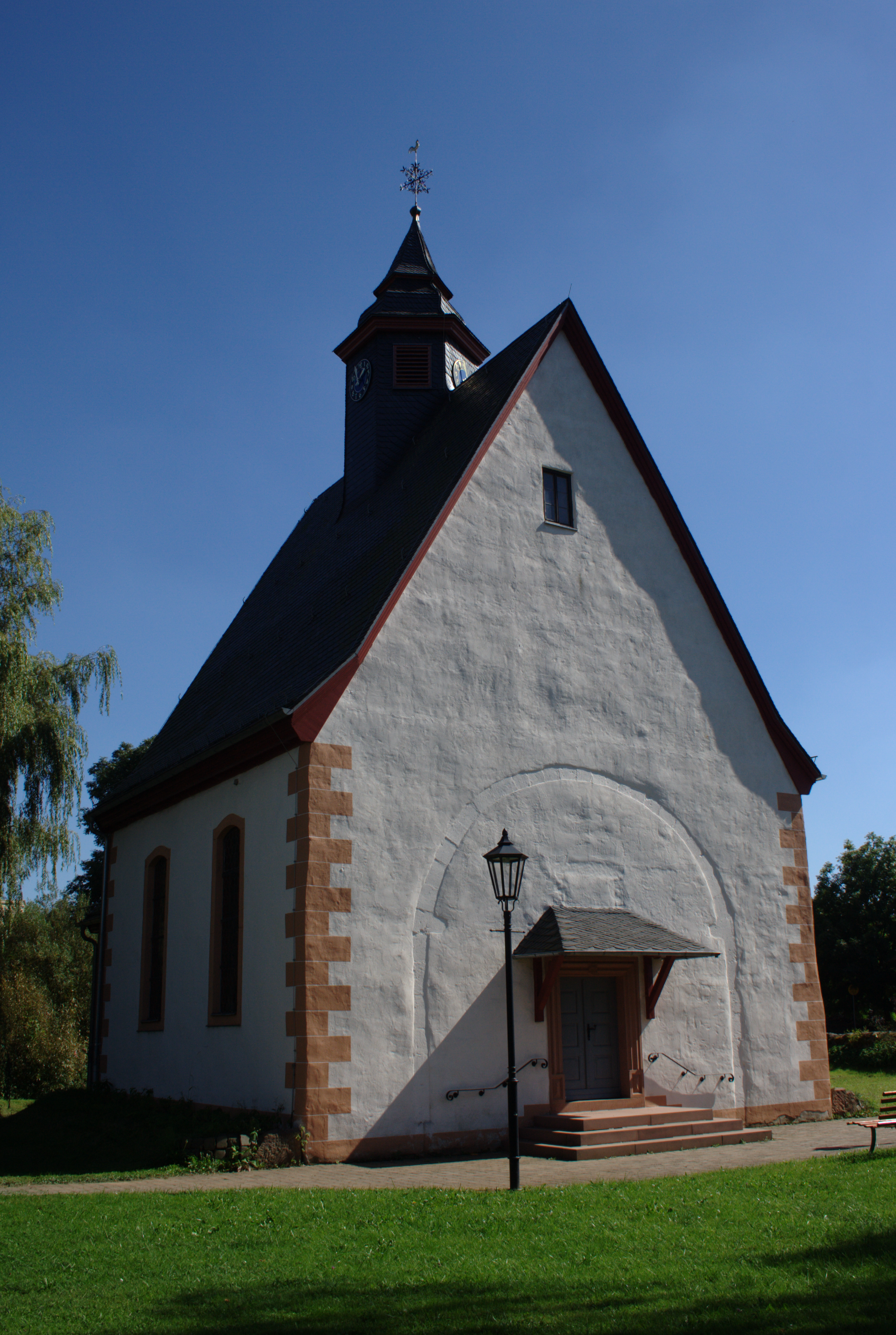 Church in Nieder-Seemen / Gedern / Hesse / GermanyThis is a photograph of an architectural monument.